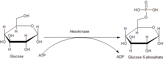 Action of Hexokinase with glucose as substrate.